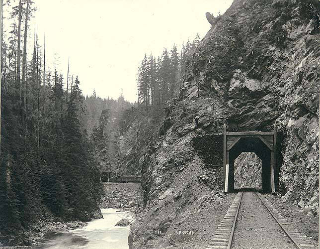 According to Philip R. Woodhouse, Monte Cristo, p. 109, "Canyon of the Stillaguamish. Tunnel number five is in the foreground. A passenger train is waiting in the distance, near the east portal of tunnel number four." Subjects (LCTGM): Rivers--Washington (State); Tunnels--Washington (State); Railroad tracks--Washington (State); Canyons--Washington (State) Subjects (LCSH): Stillaguamish River (Wash.); Everett & Monte Cristo Railway